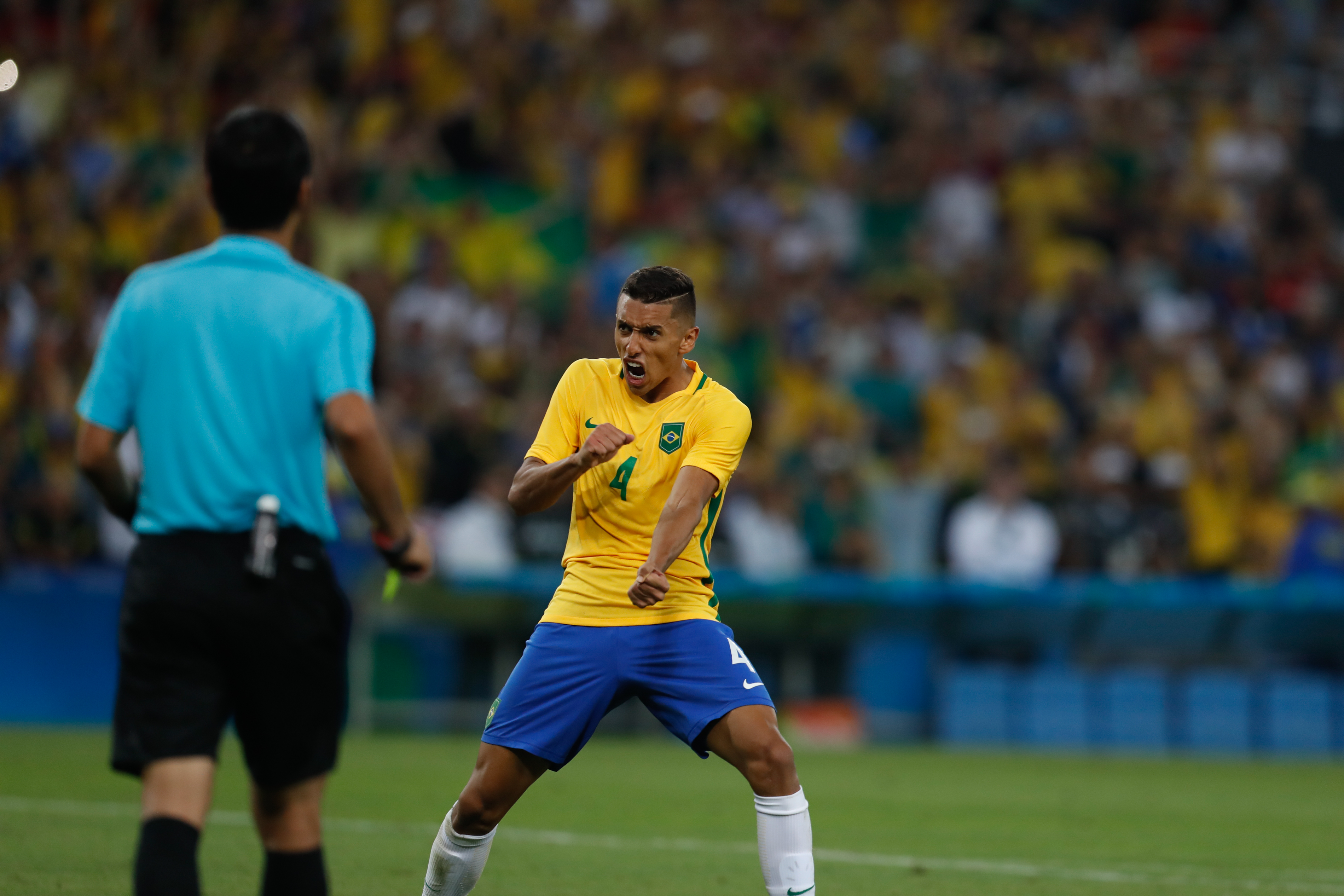 Rio de Janeiro - Brasil vence Alemanha e conquista primeiro ouro olímpico do futebol (Fernando Frazão/Agência Brasil)